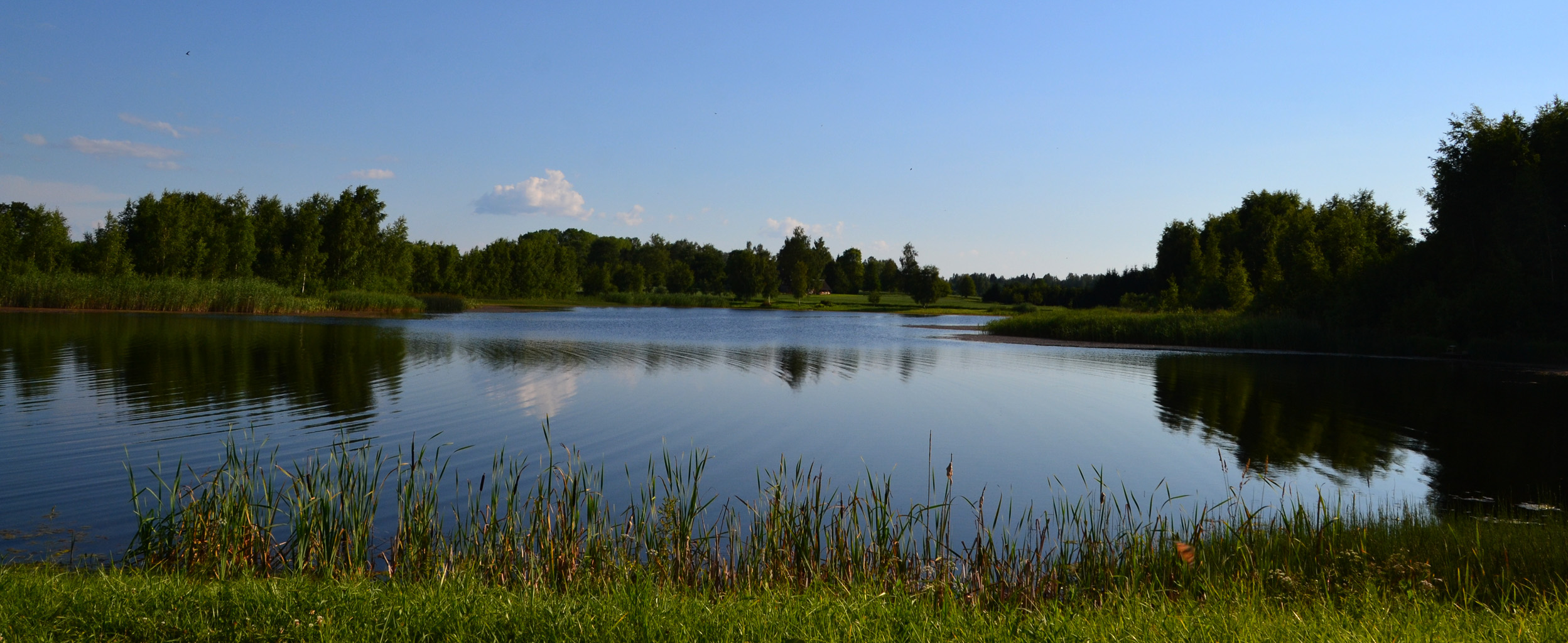 Mäksa Parish, Tartu County, Estonia